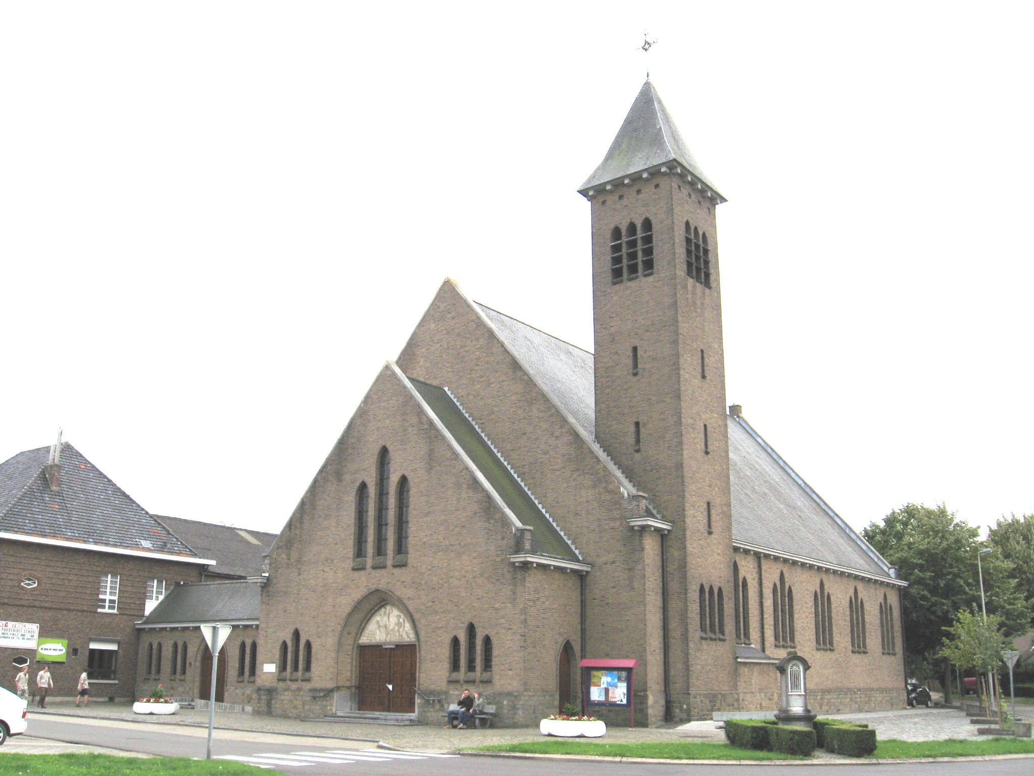 Church of Saint Augustine in Sint-Truiden, Limburg, Belgium